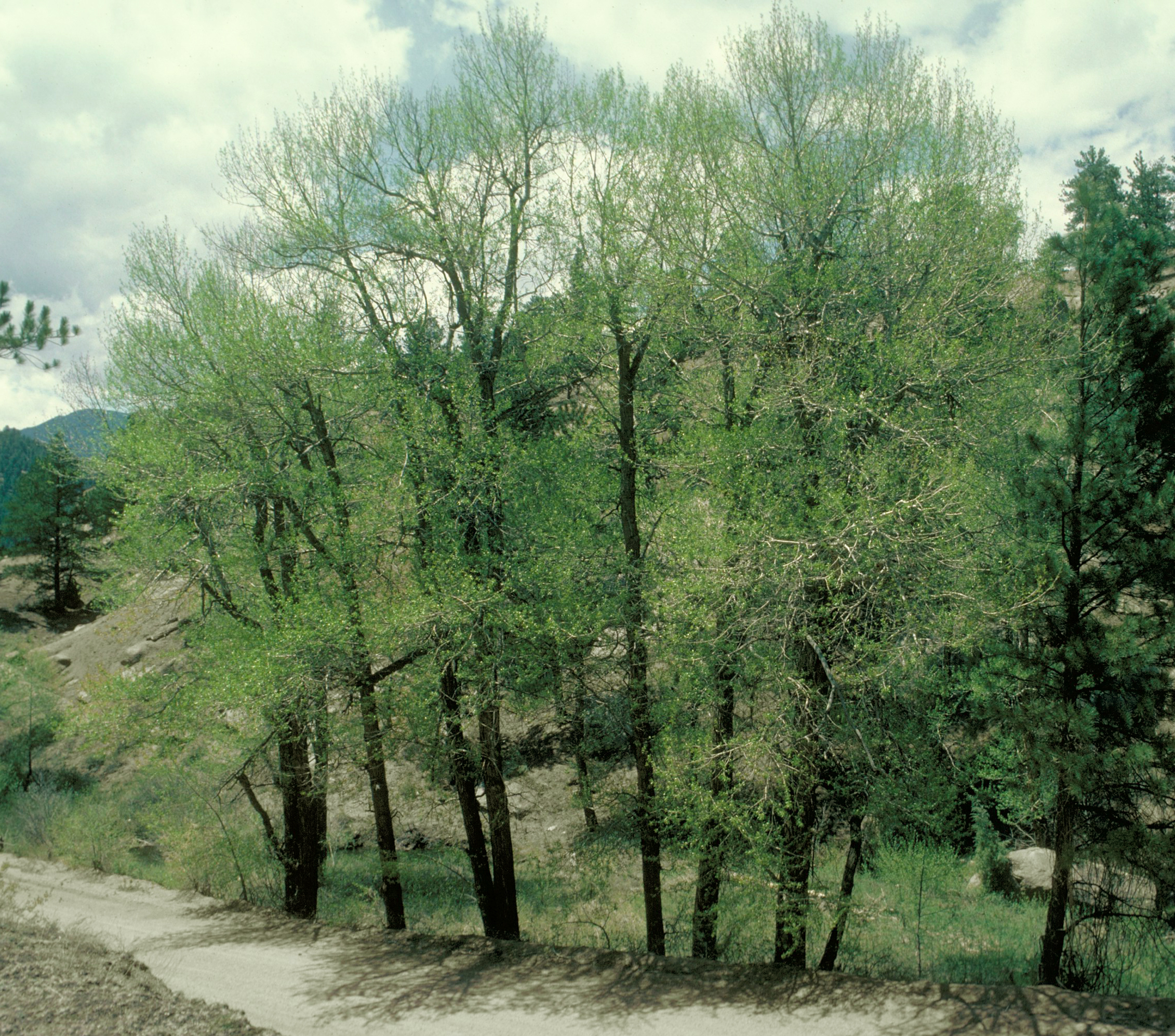 Populus angustifolia mature trees, with Pinus ponderosa subsp. scopulorum to right. USA.